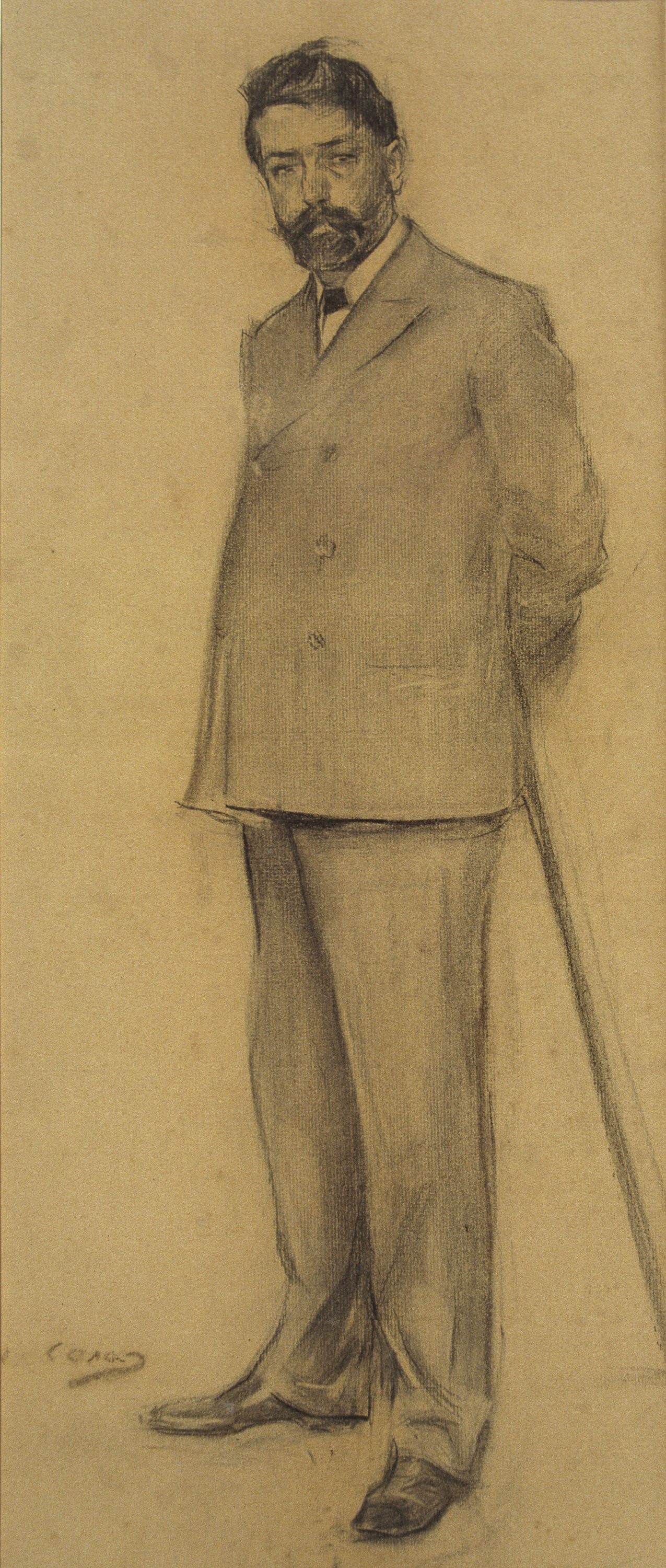 Portrait by Ramon Casas conserved at MNAC in Barcelona. Imagen 027